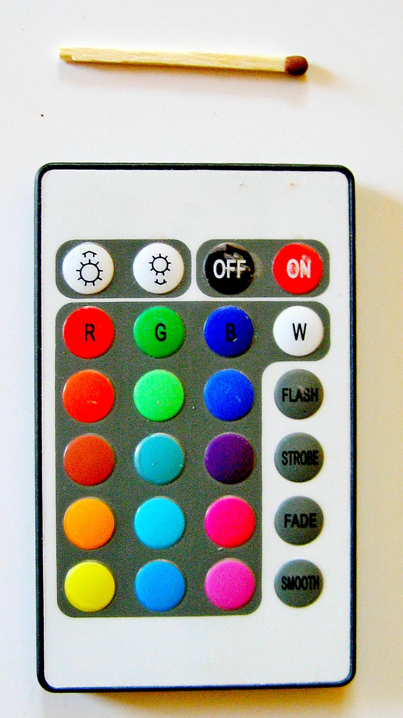 Remote control